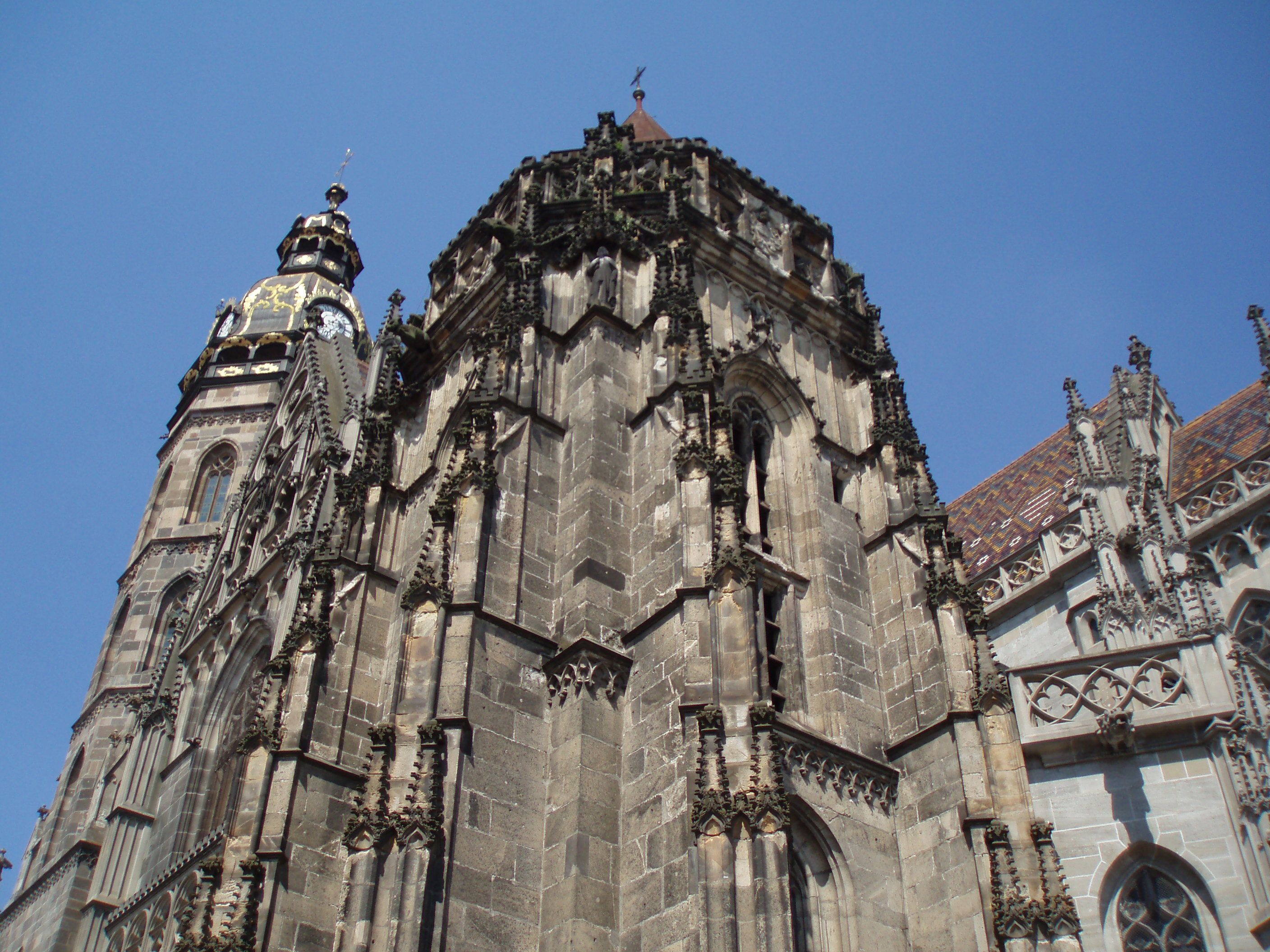 Matthyas Corvinus tower, St.Elisabeth Cathedral Košice